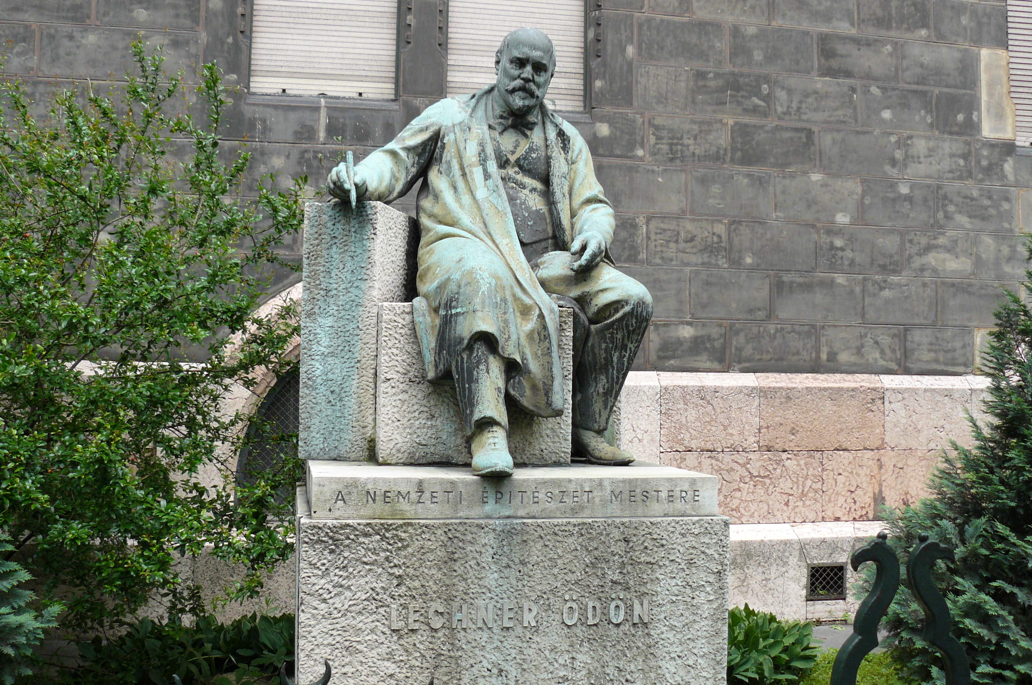 Odon Lechner Monument in Budapest.